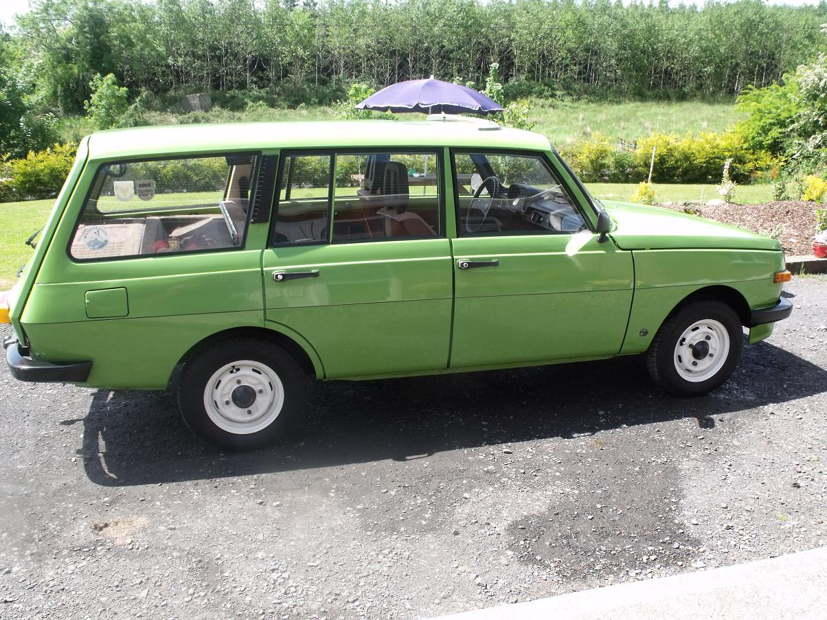 wartburg353tourist/2stroke car in ireland